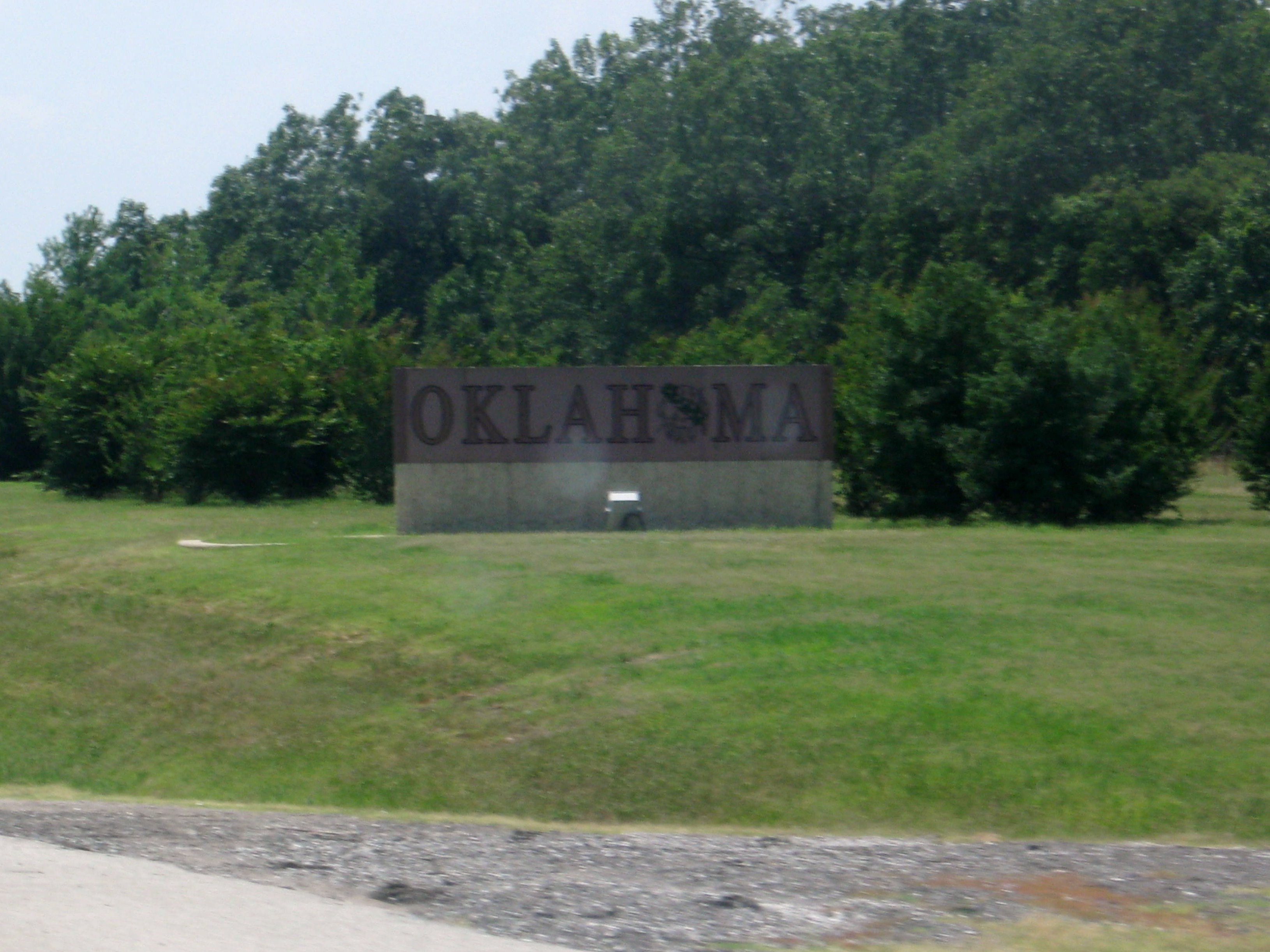 Oklahoma welcome sign, I-44 southbound